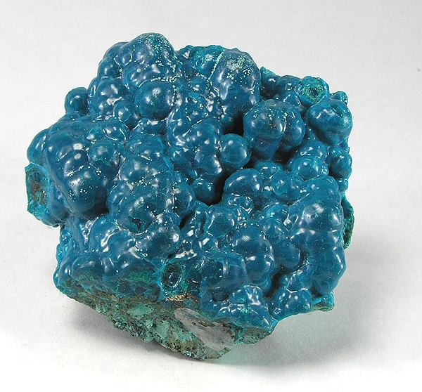 Chrysocolla Locality: L'Etoile du Congo Mine (Star of the Congo Mine; Kalukuluku Mine), Lubumbashi (Elizabethville), Southern area, Katanga Copper Crescent, Katanga (Shaba), Democratic Republic of Congo (Zaïre) (Locality at ) Size: 6.9 x 6.5 x 3.2 cm. No, this is NOT man-made - it truly is a completely natural, absolutely bizarre occurrence of botryoidal chrysocolla from the Congo. As you can see from the photos, it looks wet and melted, almost like plastic! It is not polished - this is the natural luster. And you have to love the intense deep turquoise color. WOW - cool stuff, unlike anything else out there!